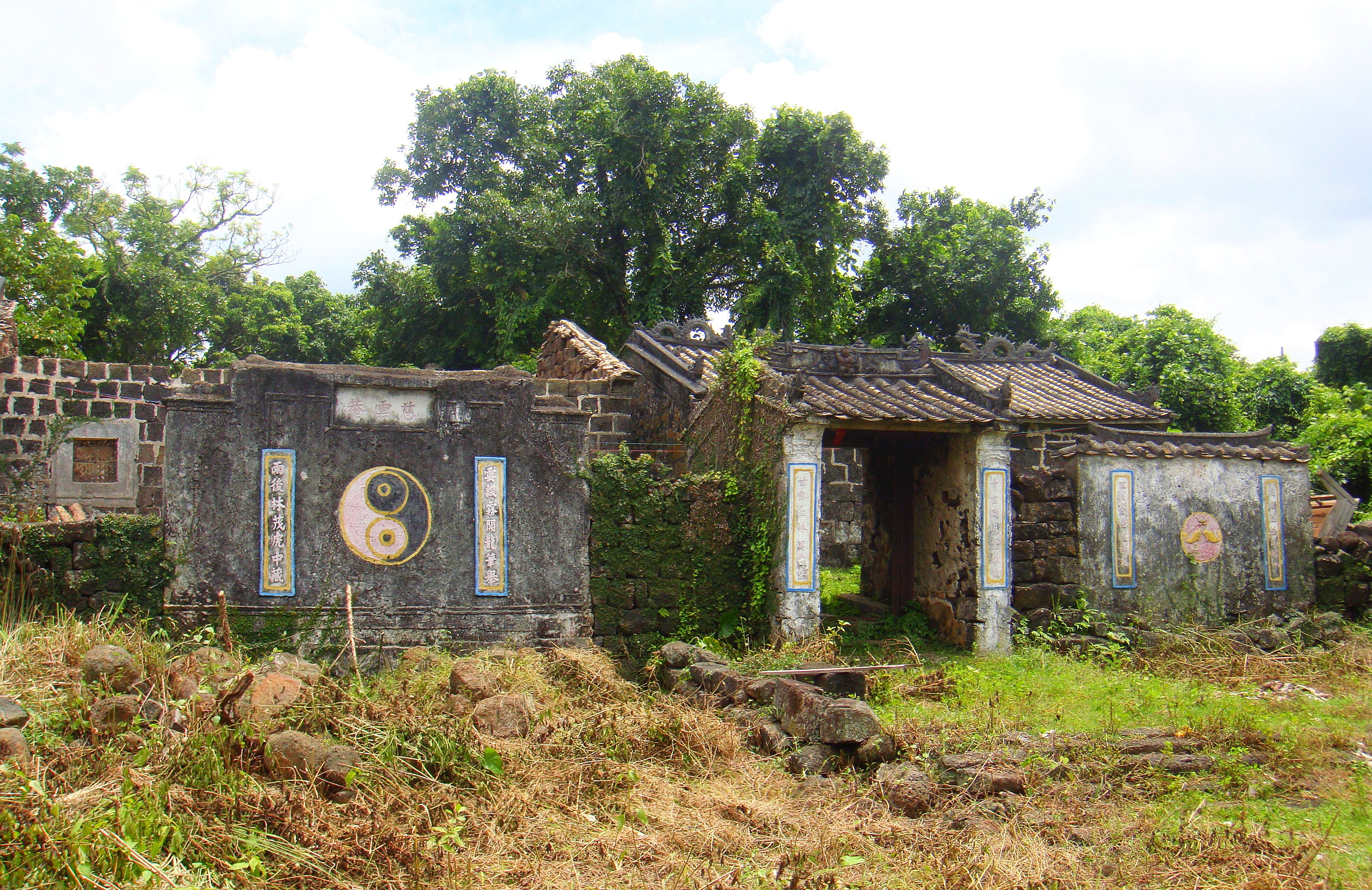 Old temple house with a taijitu on a front wall in Hainan, China.